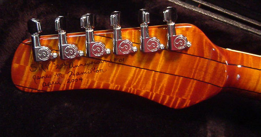 Jim Hamilton's signature and date on rear of headstock of reproduction guitar #01